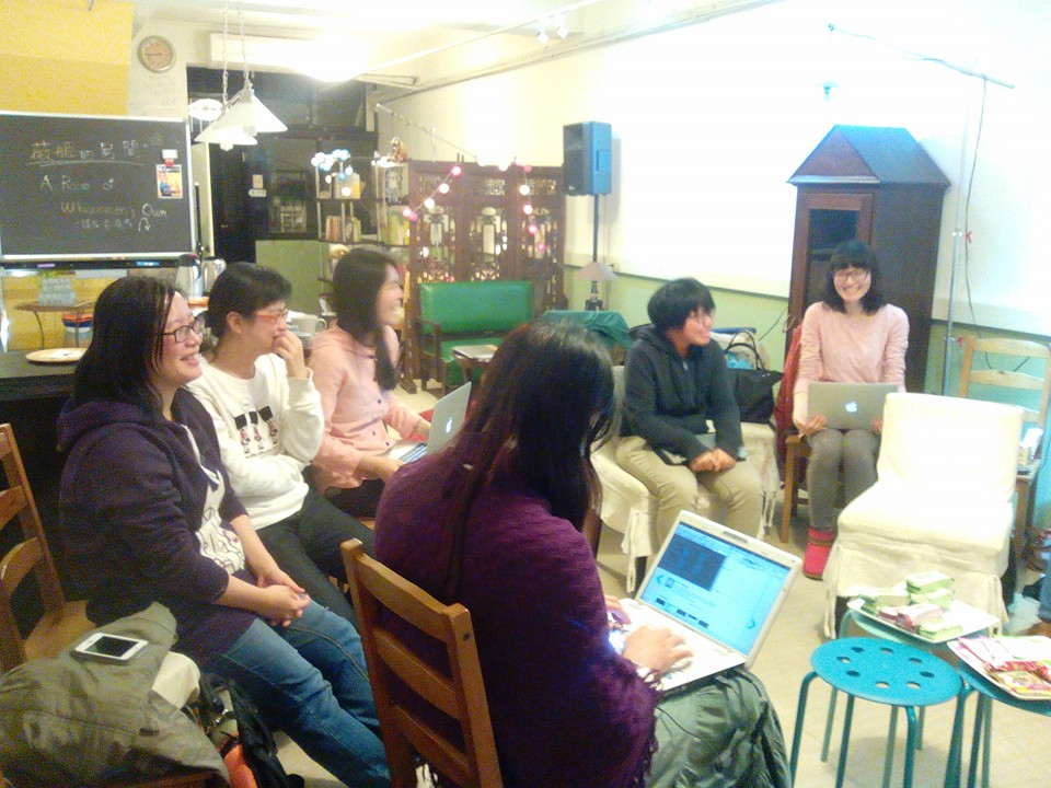 The first time meetup of "A Room of WikiWomen's Own" , a meetup of female wikipedian in Taiwan.